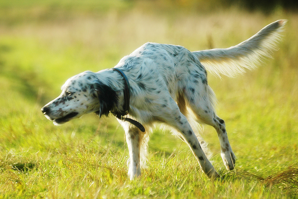 English setter working in the field